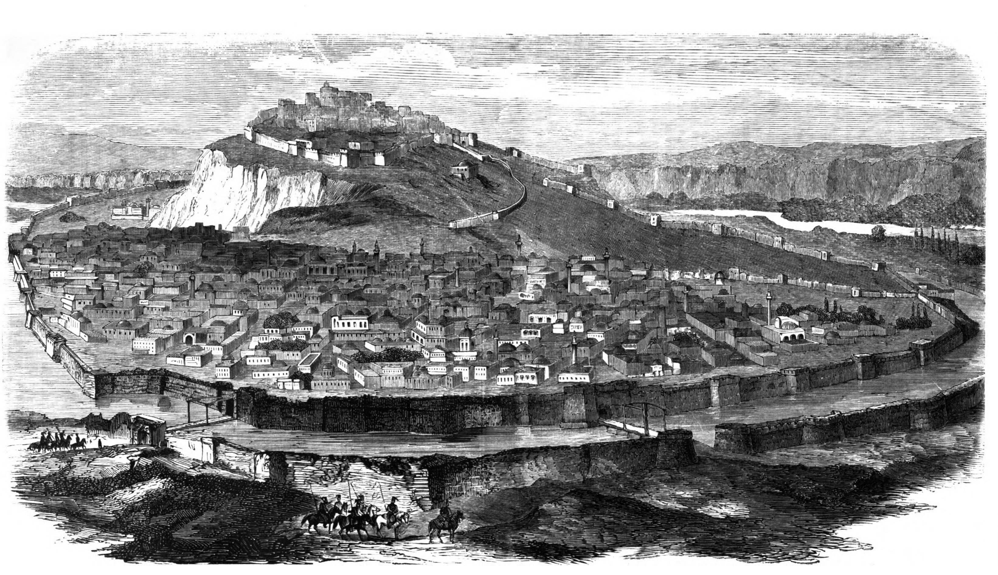 caption: "Ansicht von Kars."